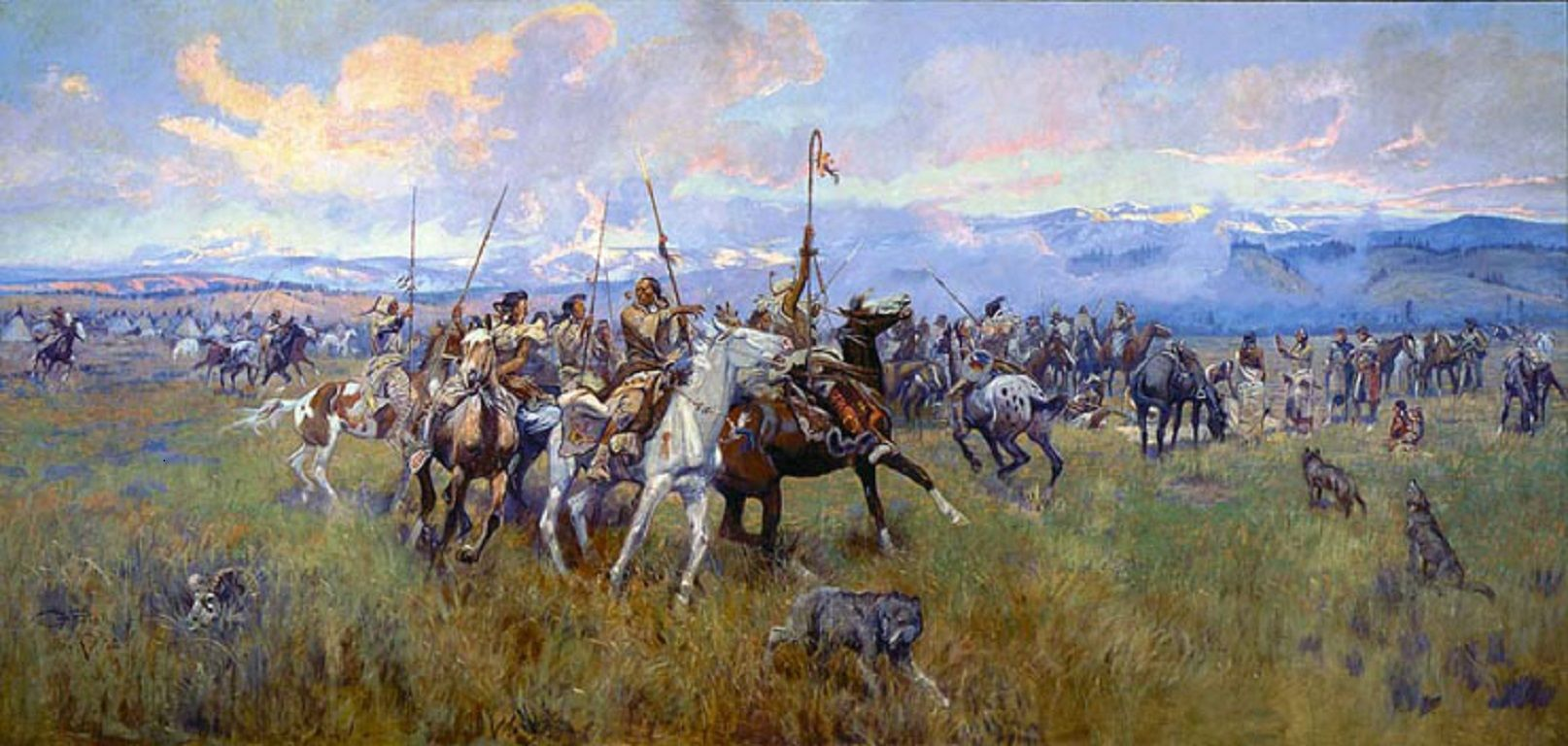 Painting by Charles M. Russel of the Lewis and Clark Expedition meeting the Salish Indians.